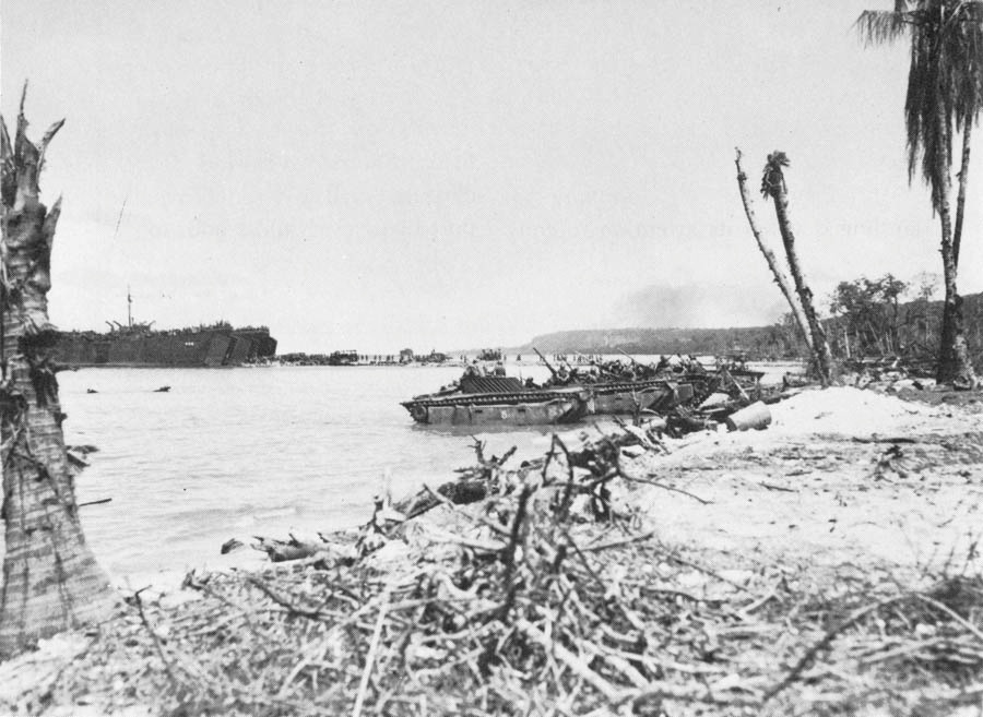 DUKW unloading at Biak - free image of Hyperwar, a database of the US-military.